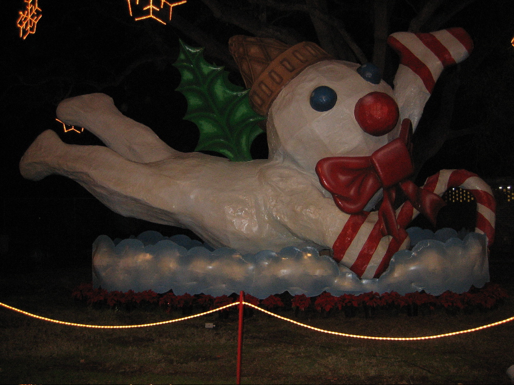 "Mister Bingle" at the "Celebration in the Oaks" Holiday display, City Park, New Orleans. "Mister Bingle", a living snow-man who helped Santa Claus, originated as a character for children's Chistmas pupet shows at the local "Maison Blanche" department store. (Mister Bingle having the same "MB" initials as the store.) Maison Blanche went out of business in the 1980s, but Mister Bingle survived as a popular local Christmas character. This large Mister Bingle effigy, formerly seasonally displayed on the Maison Blanche Building fascade on Canal Street, is now part of the city's annual "Celebration in the Oaks" Christmas season display in City Park. Photo by Infrogmation.